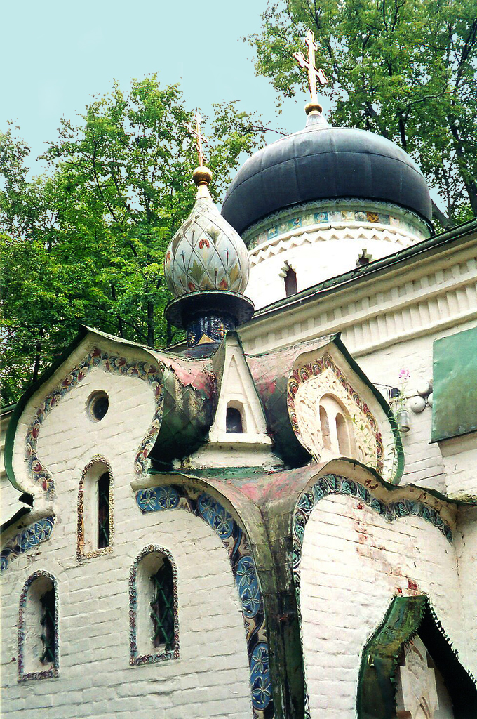 The church in Abramtsevo, a famous manor. Looks nice on black. Check out another angle on my friend Robertulus Rufus's stream. (scanned print)